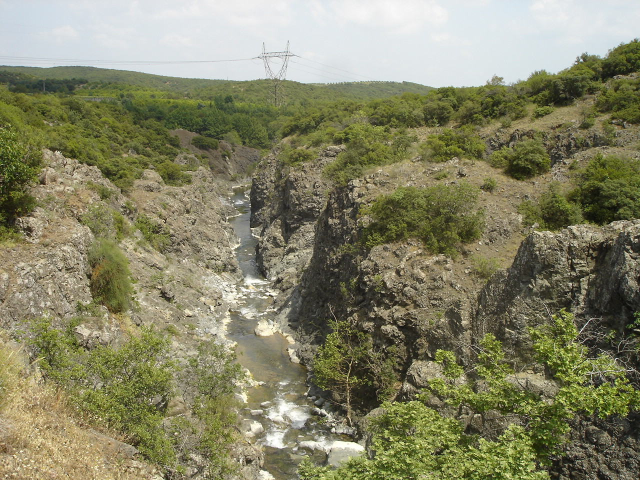 The gorge (canyon) on Stara Reka river near Miravci, Gevgelija region, Macedonia